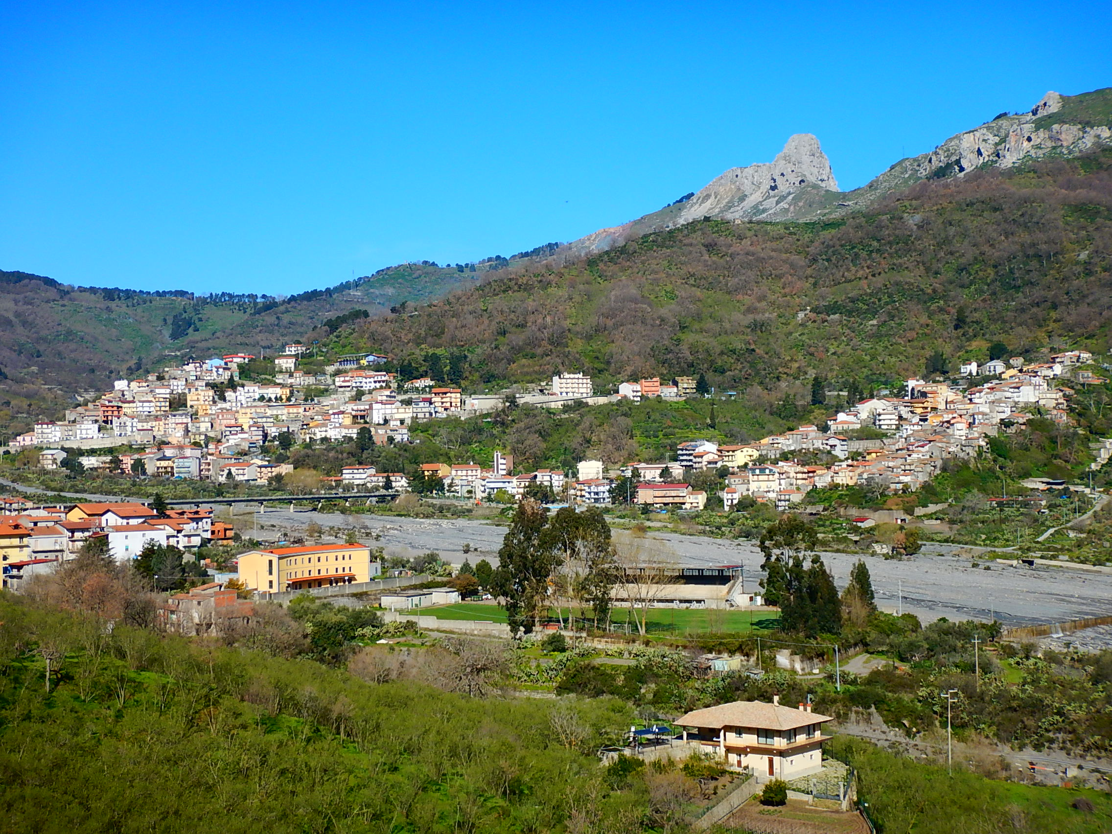 view of fondachelli fantina,sicily